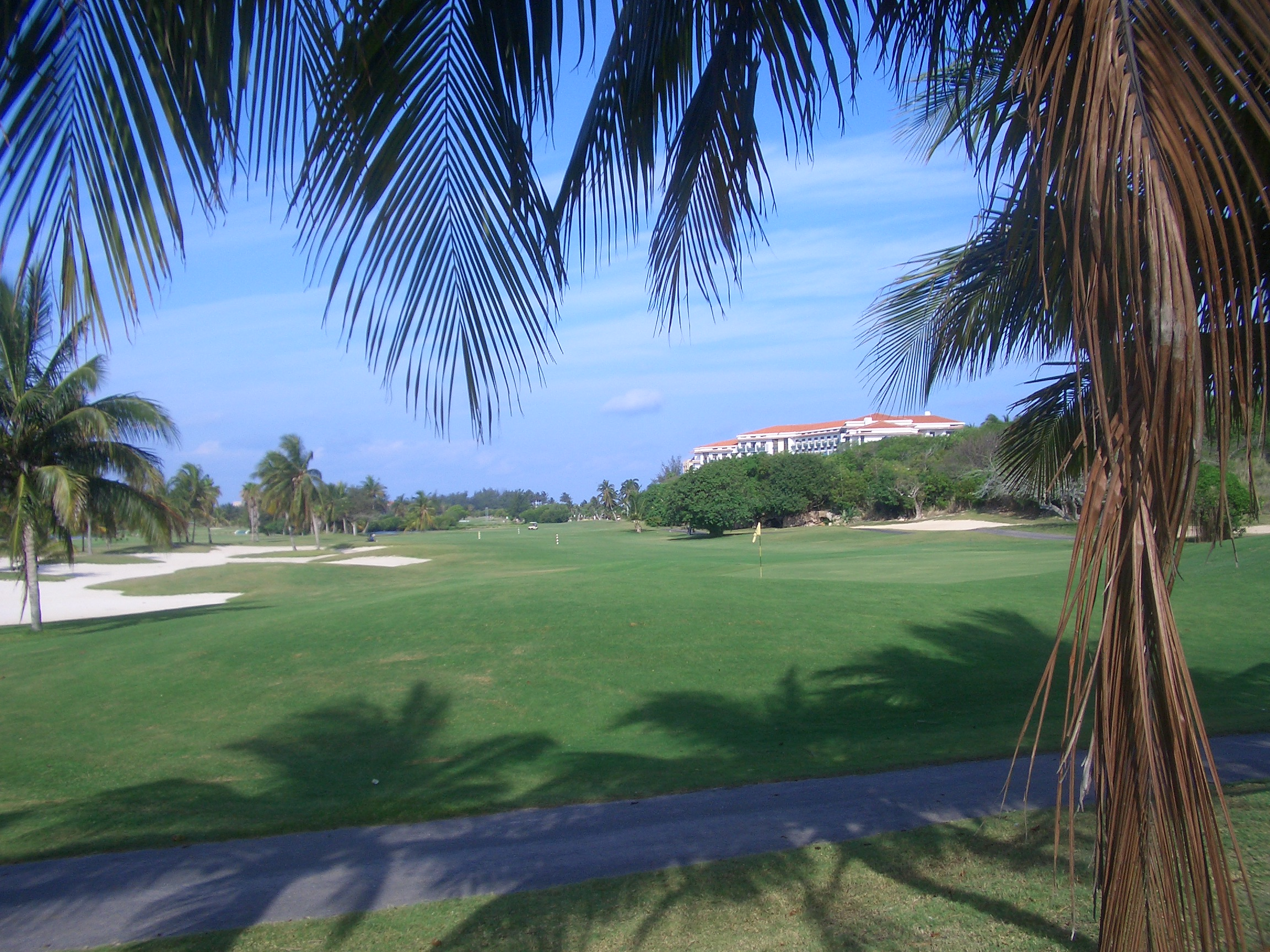 Golf course in Varadero, Cuba